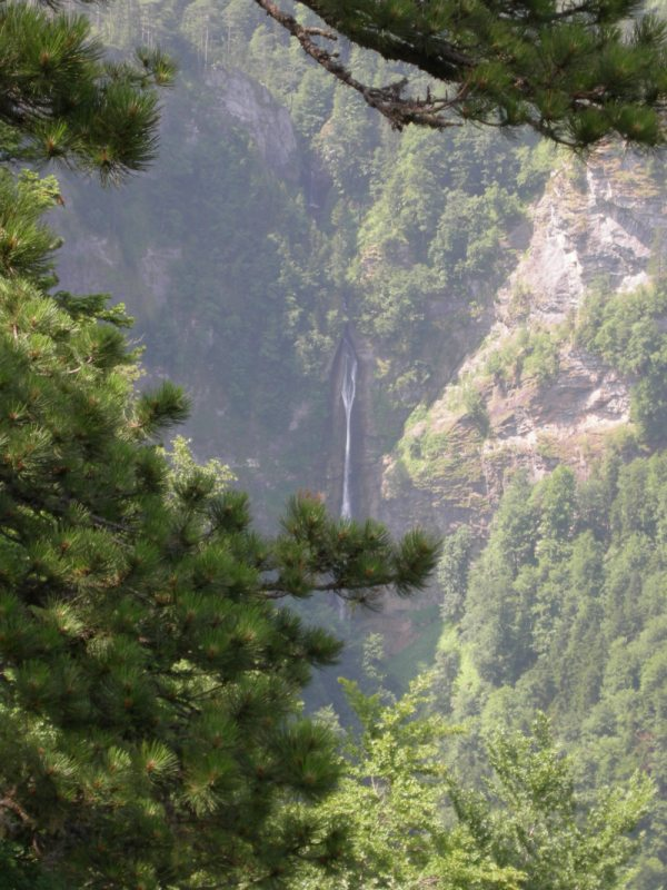 Waterfall Skakavac in Primeval forest Perućica at National park Sutjeska.